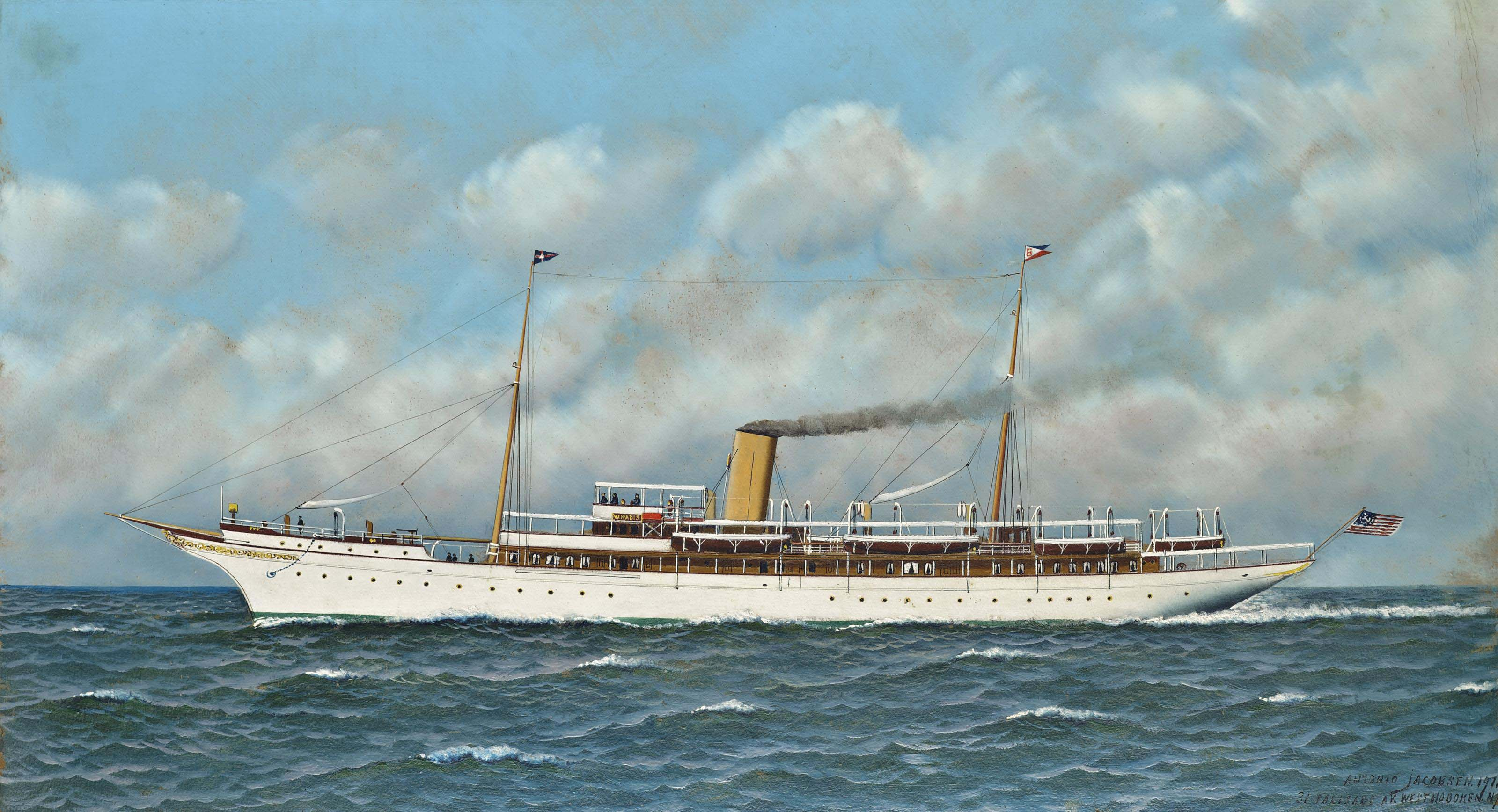 Antonio Nicolo Gasparo Jacobsen (born 1850 in Copenhagen; died 1921 in Hoboken, New Jersey) The New York Yacht Club's steam yacht Vanadis at sea. Signed, inscribed and dated 'ANTONIO JACOBSEN. 1911/31 PALISADE AV. WEST HOBOKEN. N.J.' (lower right). Oil on board 20 x 36 in. (50.7 x 91.5 cm.) The photograph is stitched and slightly retouched at the top left corner and at the bottom in the centre